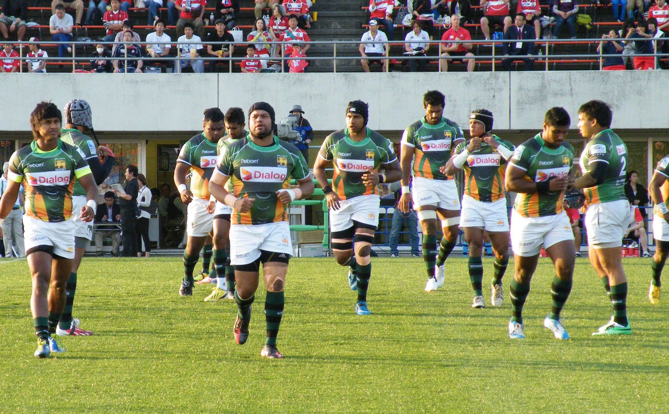 Sri Lanka national rugby union team in 2014 Asian Five Nations (Mizuho Rugby Stadium, Japan)